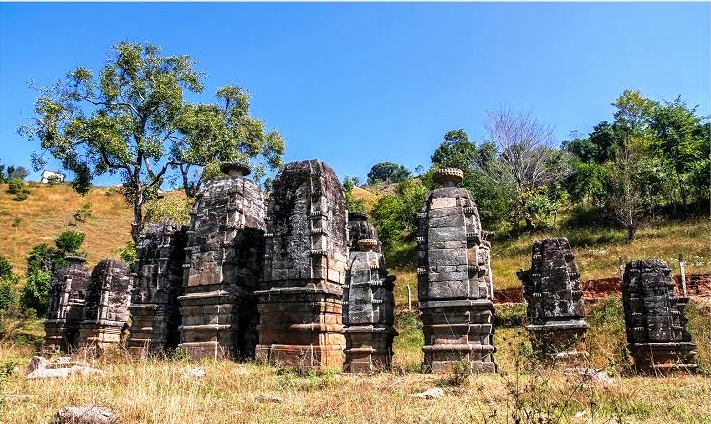 Bhurtika Devals